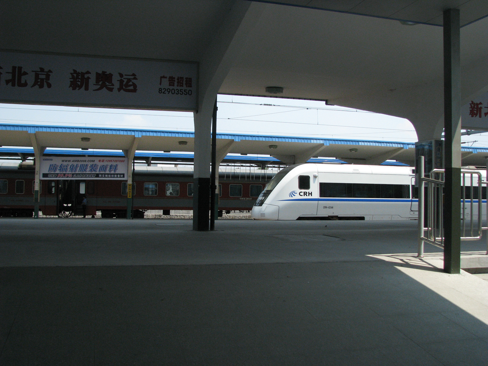 The Platform No.1 of Jiaxing Railway Station, Zhejiang, China. A CRH1A EMU is passing through the station.